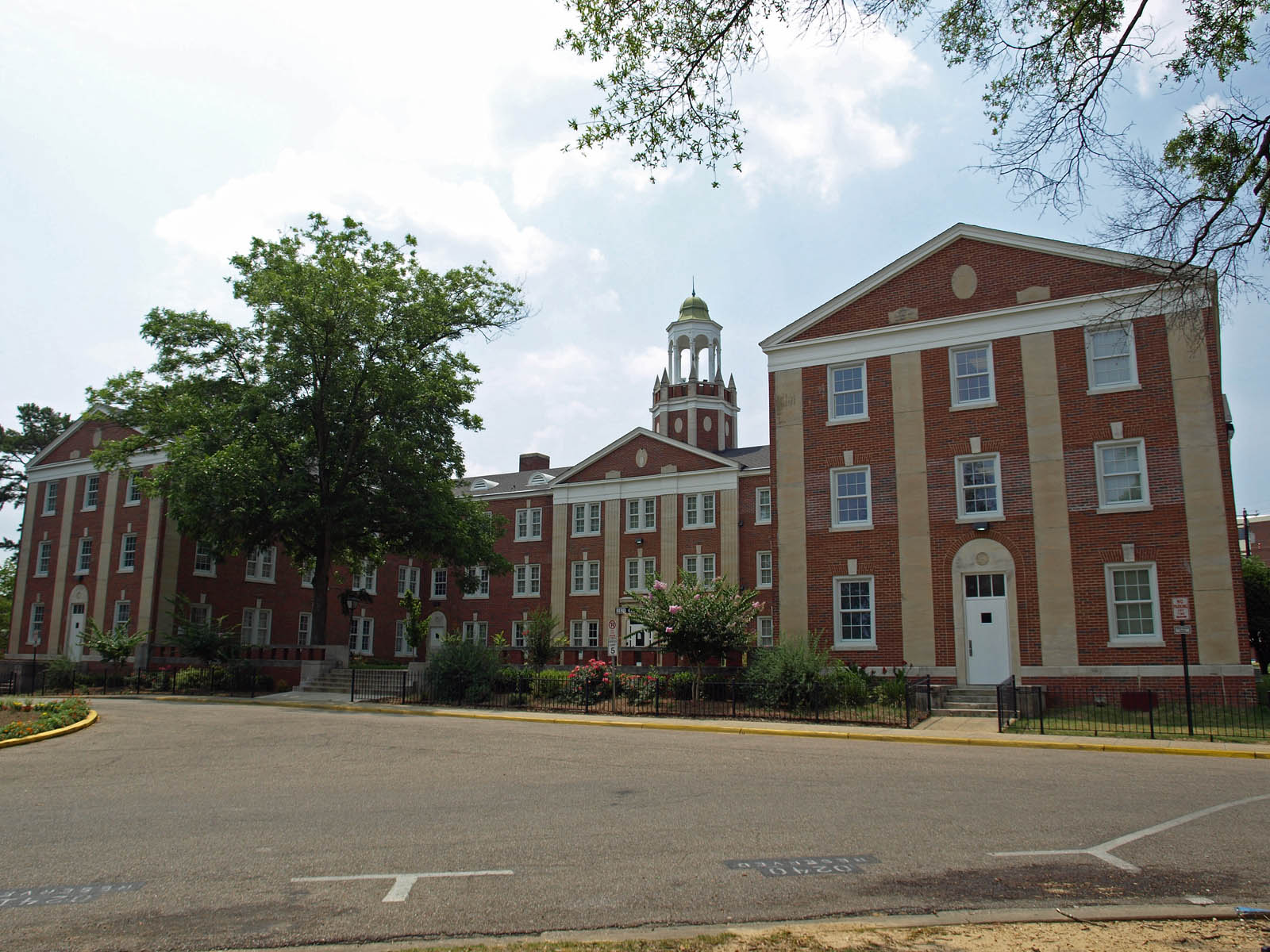 Bibb Graves Hall on the campus of Alabama State University in Montgomery, Alabama